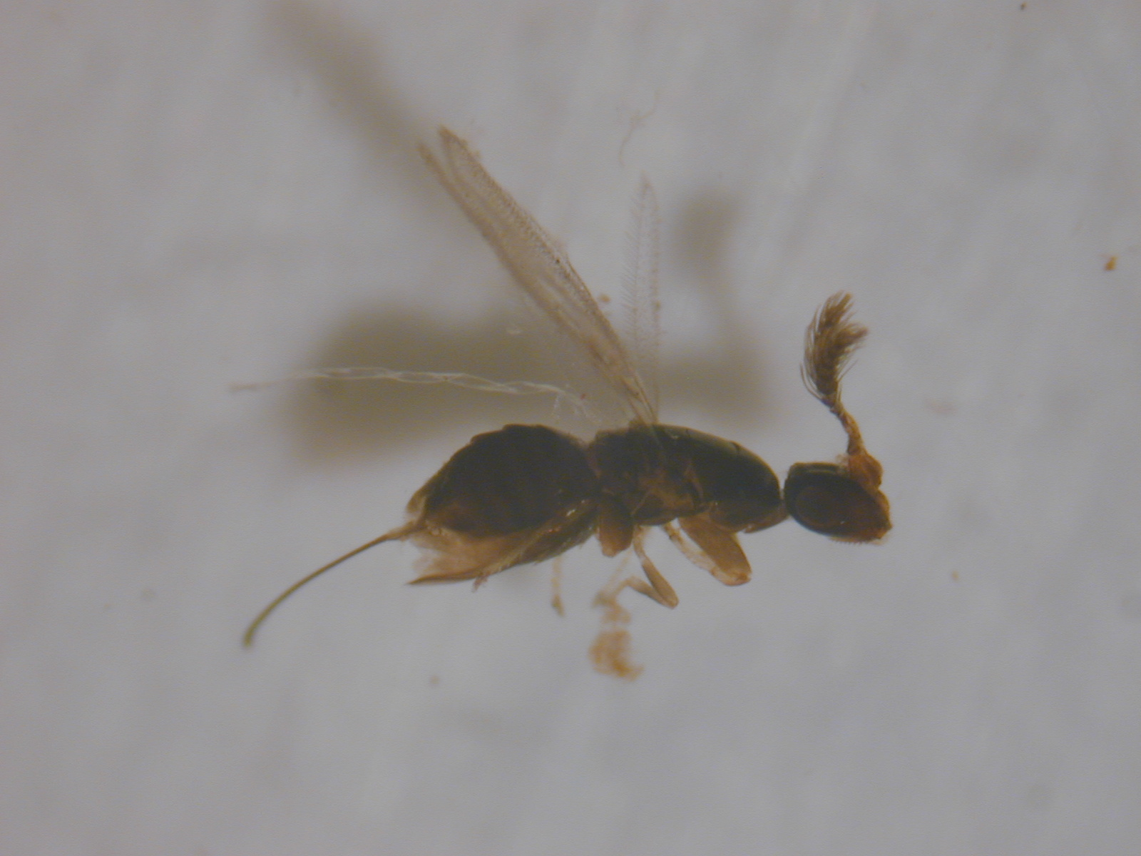 Ficus microcarpa (Agaonidae Parapristina verticillata female 000928 33 ex fruit). Location: Maui, Hamakuapoko